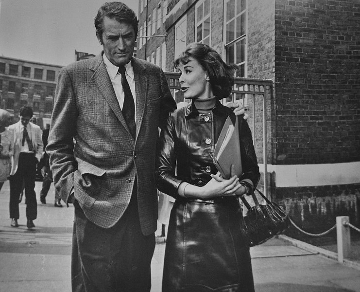 Gregory Peck & Anne Heywood press photo for the film The Chairman (1969)